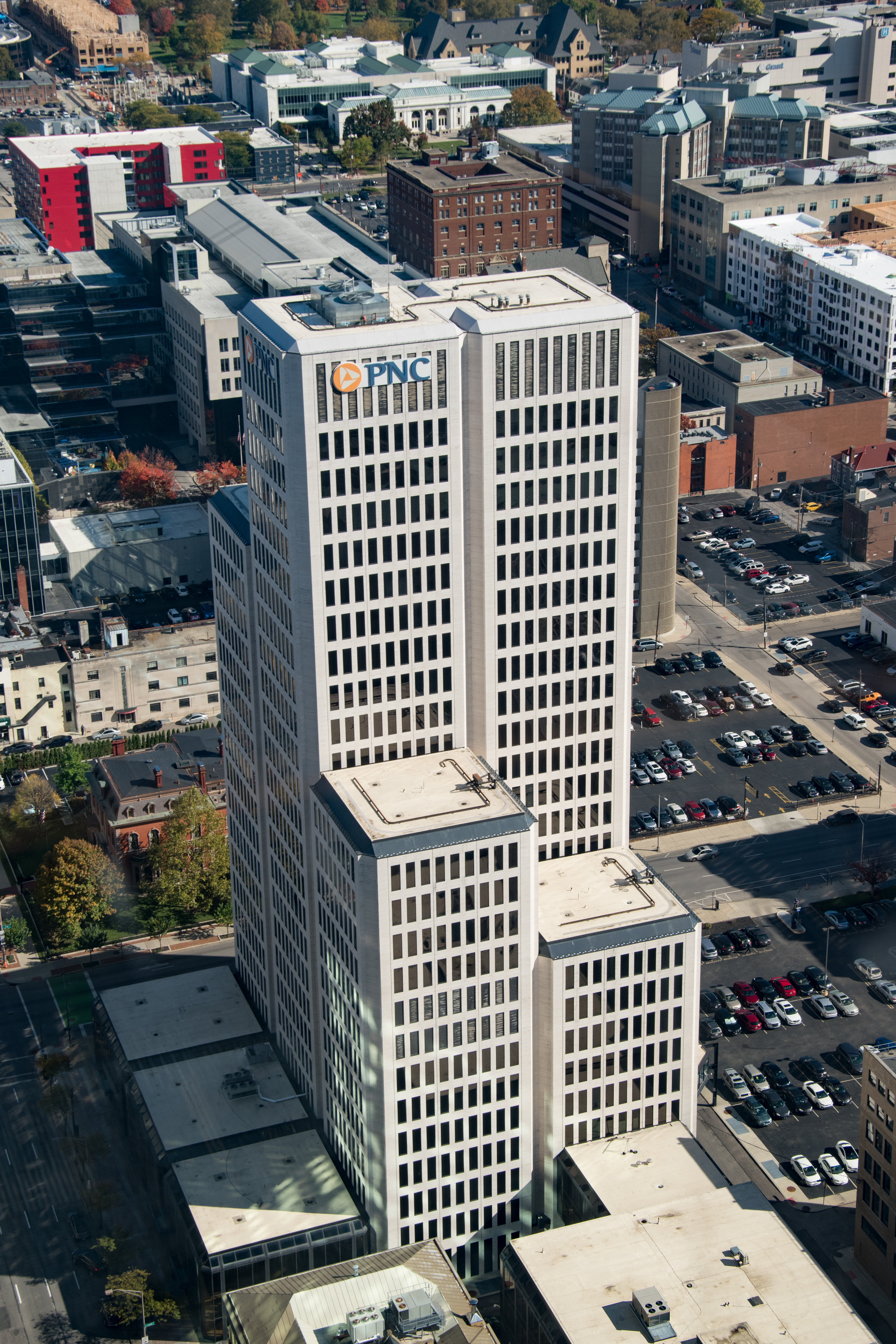 View of Columbus's PNC Bank Building from the Rhodes State Office Tower.